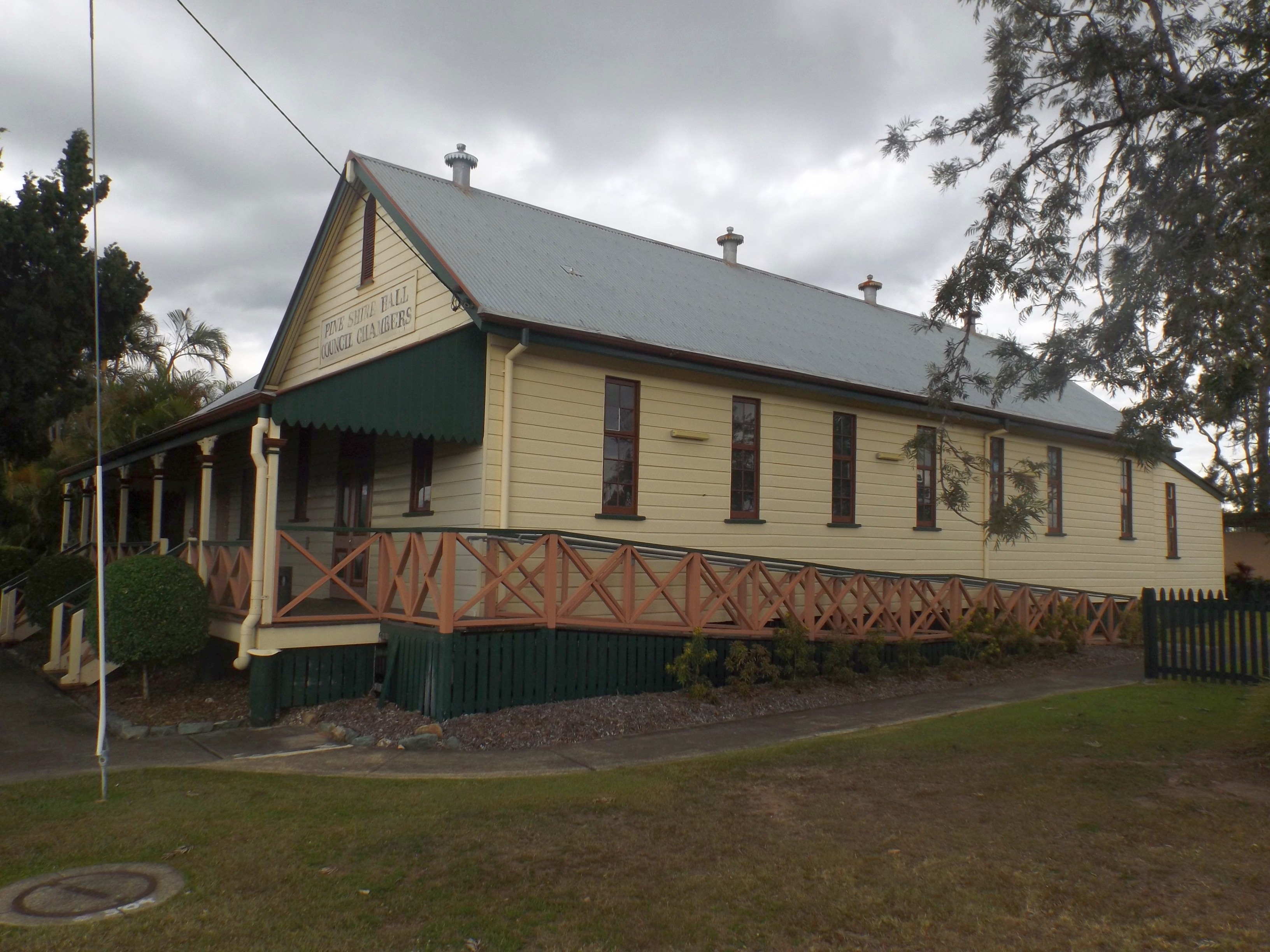 Pine Rivers Shire Hall at Strathpine, Moreton Bay Region, Queensland, Australia.